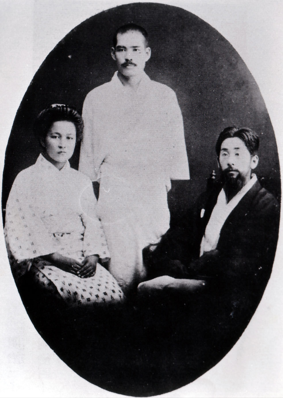 Higa(shi)onna Kanjun with his wife and Iha Fuyu